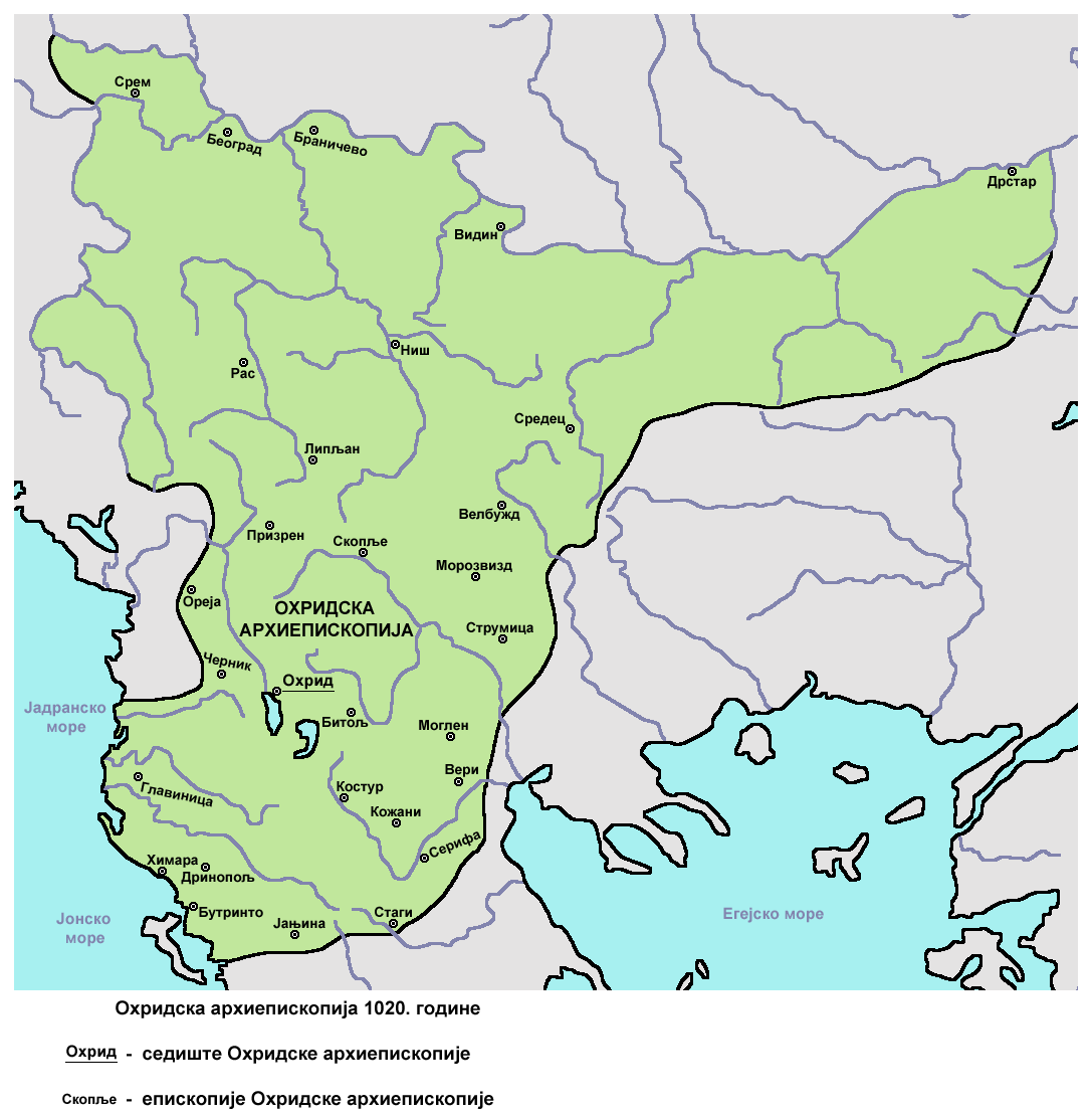 Archbishopric of Ohrid in 1020.